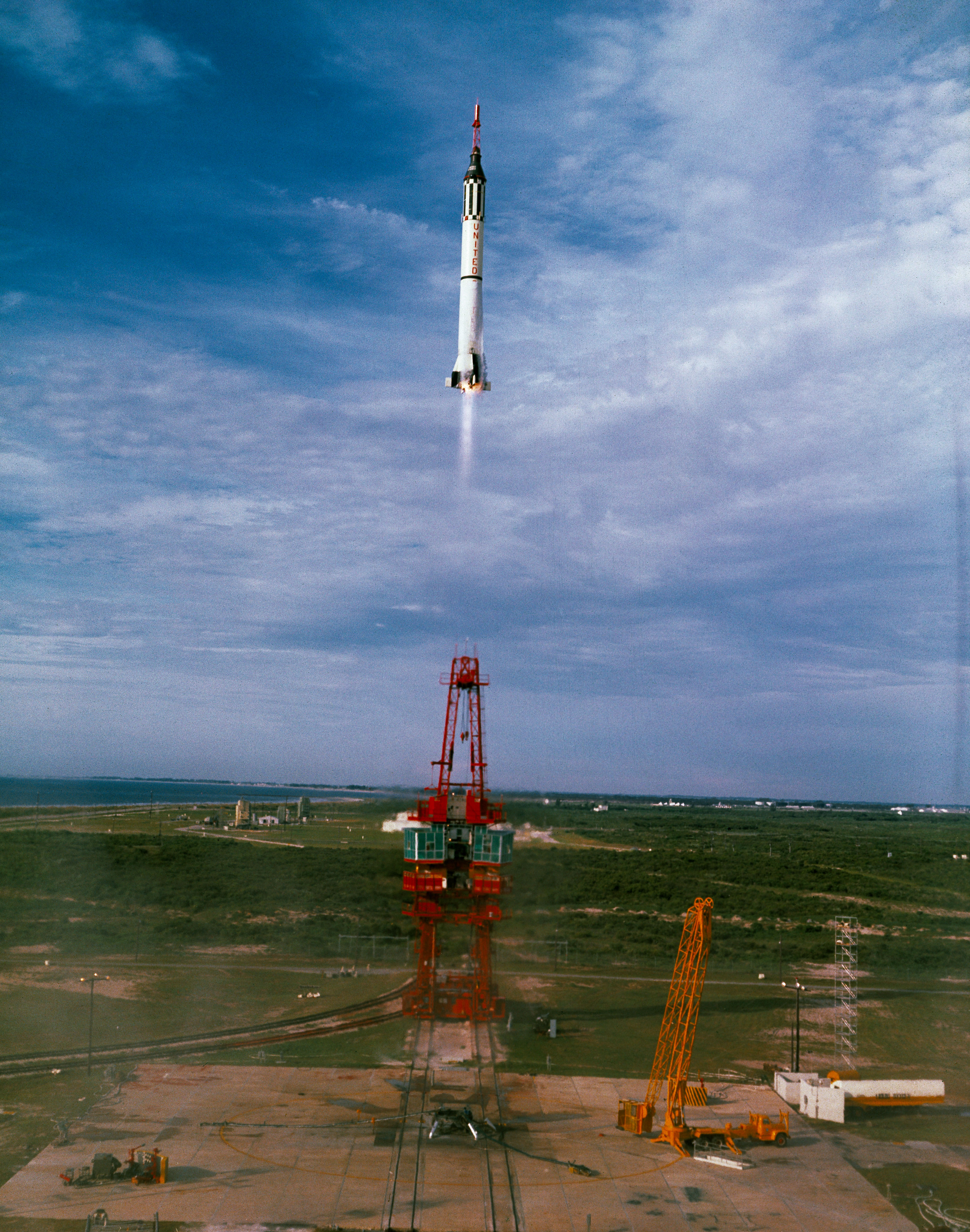 (July 21, 1961) On Jul 21, 1961, Mercury-Redstone 4 launched from Cape Canaveral, carrying Astronaut Gus Grissom and making him the second American to venture into outer space. Grissom nicknamed his spacecraft the “Liberty Bell 7” after its bell-shape, and as a tribute to the original bell, a large crack was painted on the spacecraft’s side. The flight lasted about 15 minutes and 30 seconds, and Grissom reached an altitude of over 102 nautical miles before landing in the Atlantic ocean. After splashdown, the Liberty Bell 7’s hatch cover, which was designed to release if there was an emergency, accidentally exploded off the vehicle. Grissom was recovered safely, but the capsule sank into the ocean. Ironically, the spacecraft was finally recovered in 1999 one day before the 38th anniversary of its launch. Image # : s61-03248